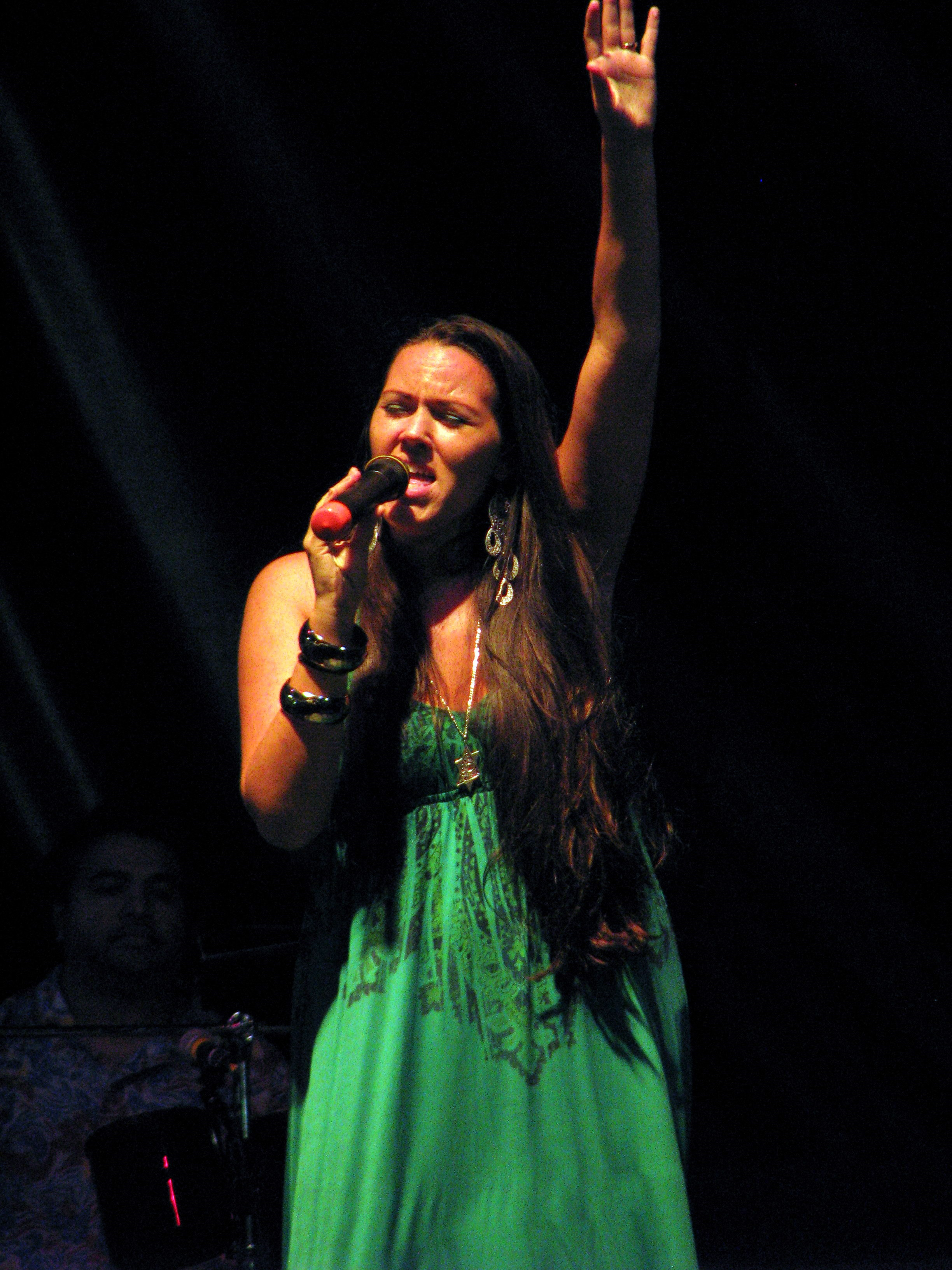 Singer Beckah Shae at the Tennessee State Fair